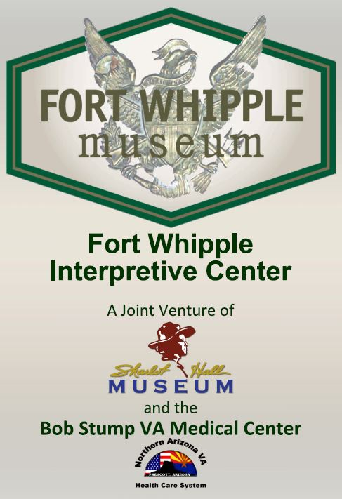 Ft Whipple Museum exterior sign